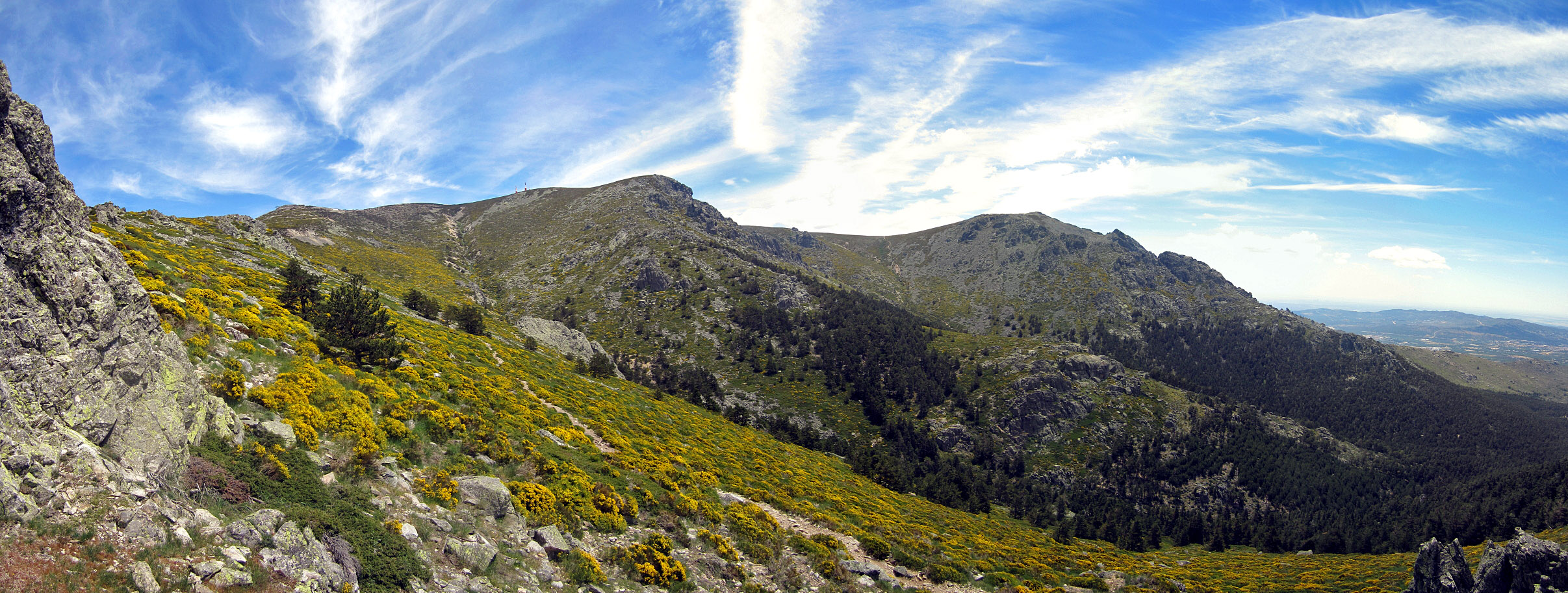 La Bola del Mundo and La Maliciosa peaks. La Barranca Valley.